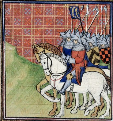 Henry III, Count of Bar (British Library, Royal 20 C VII f. 29v)